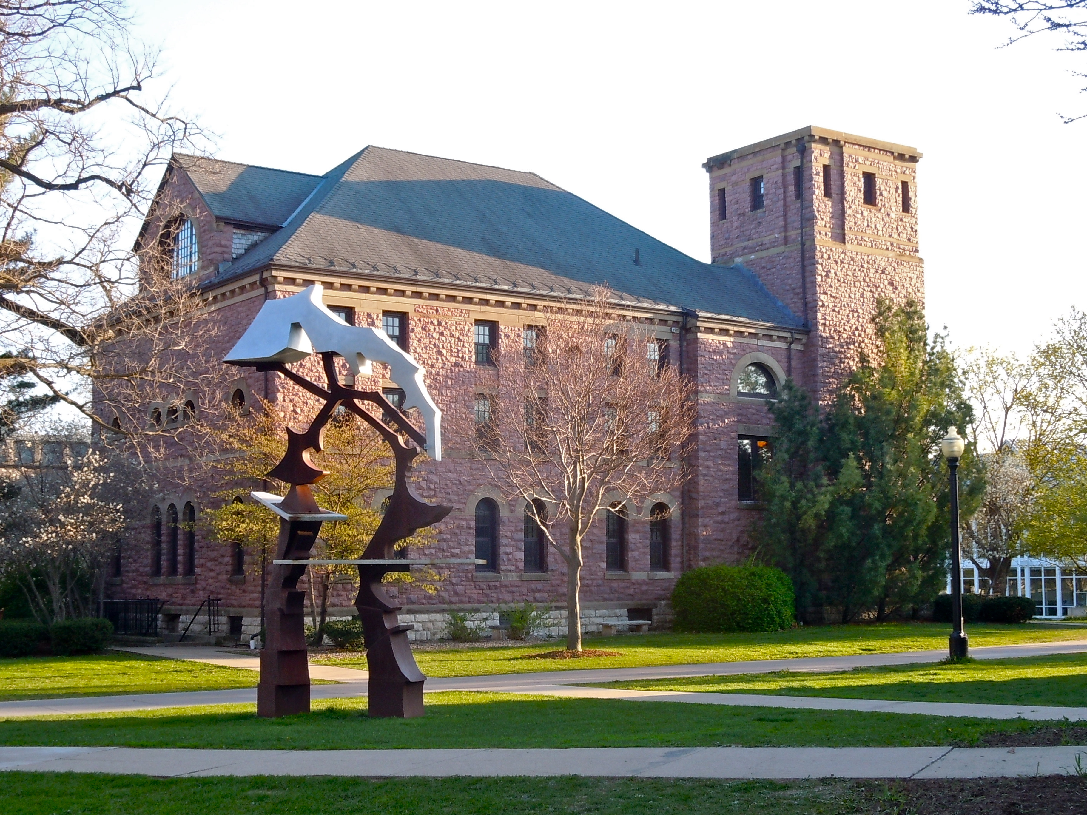 Goodnow Hall on the NRHP since April 26, 1979. On Grinnell College campus, Grinnell, Iowa